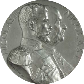 A Visit of King Nikola I to Emperor Nikolay II, 1912 - by Toni Sirmai